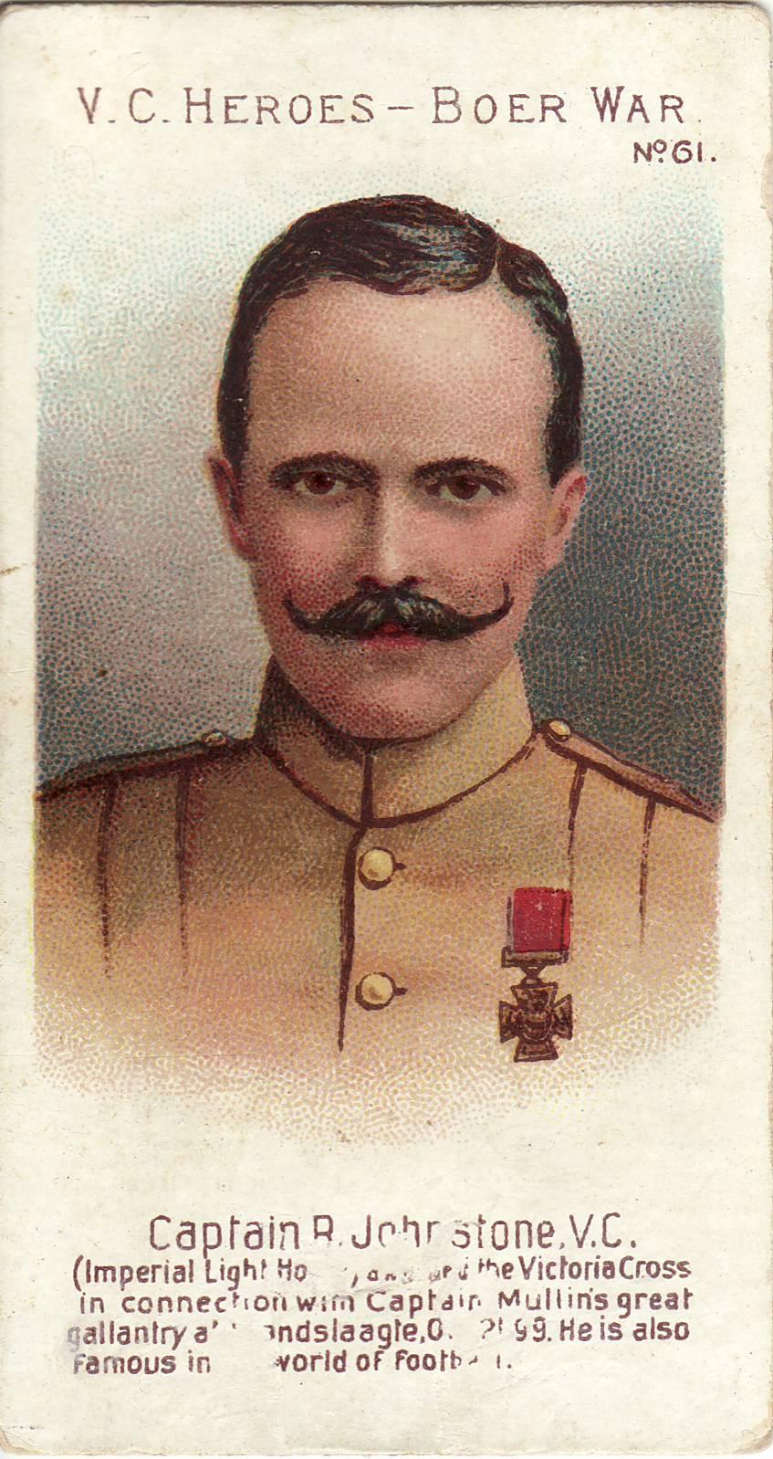 Taddy Trading card of Boer War heroes. Robert Johnstone, Irish rugby union player and Victoria Cross awarded soldier